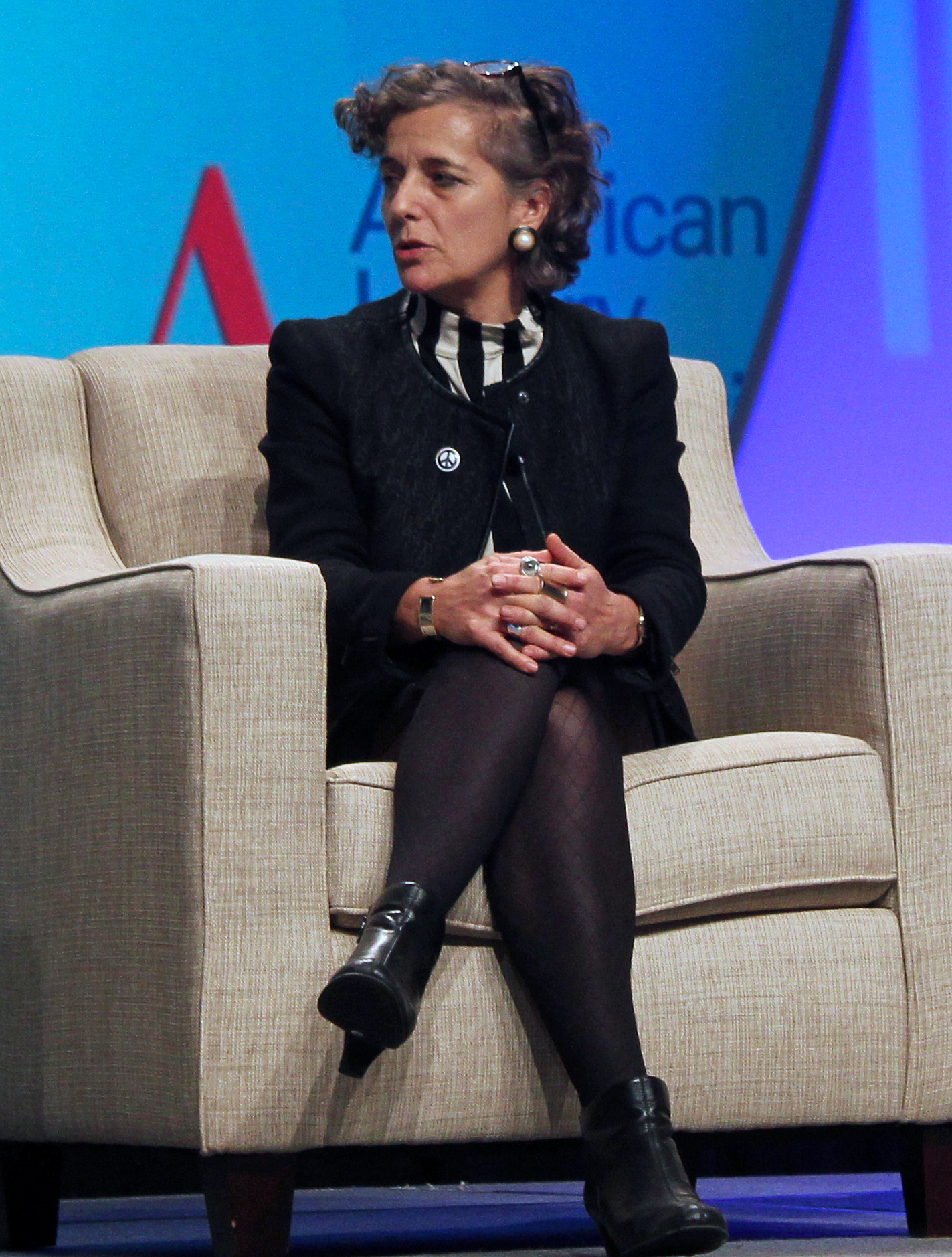 Françoise Mouly, a Paris-born, New York-based, designer, editor, and publisher.